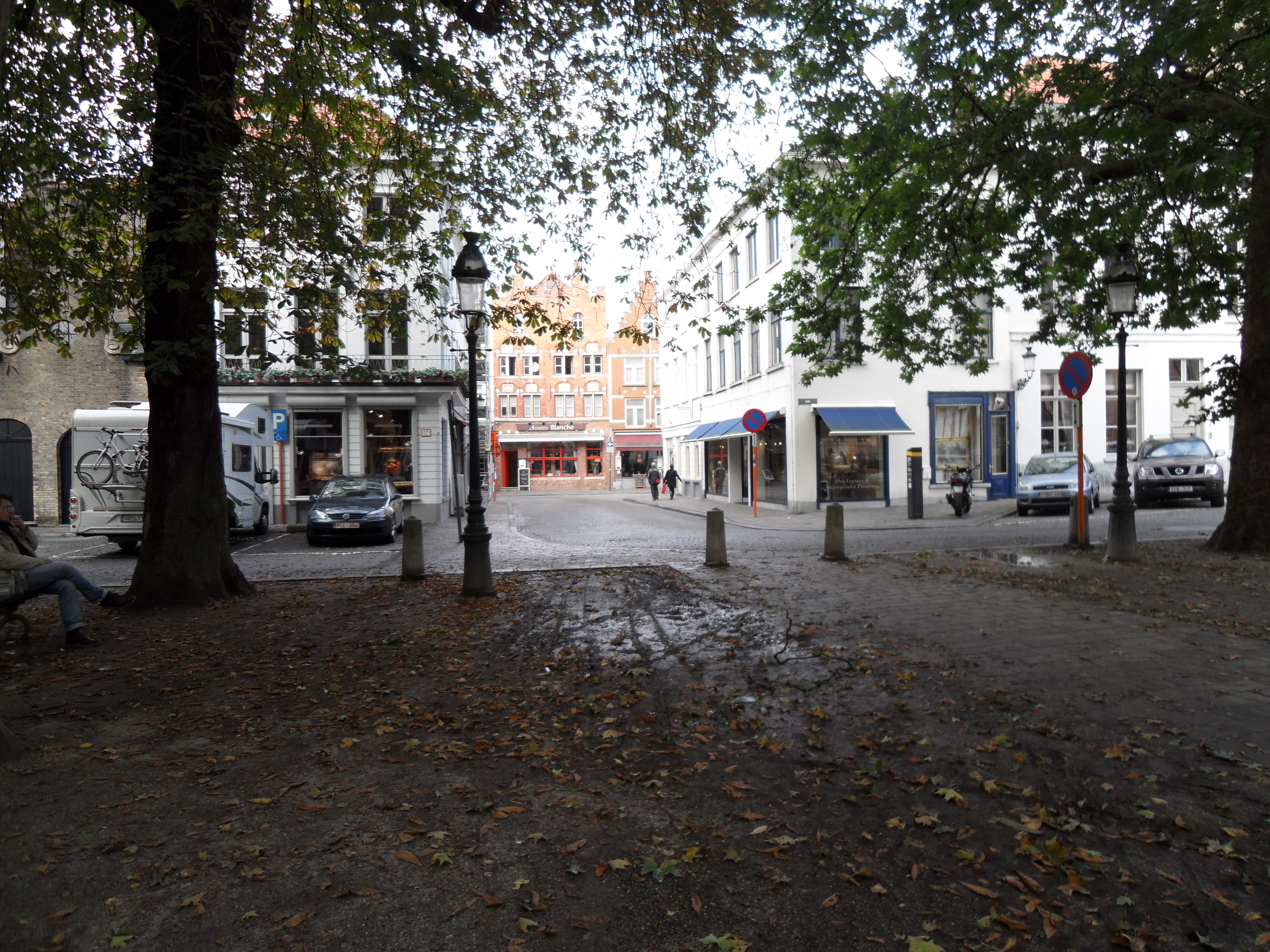 Burgstraat